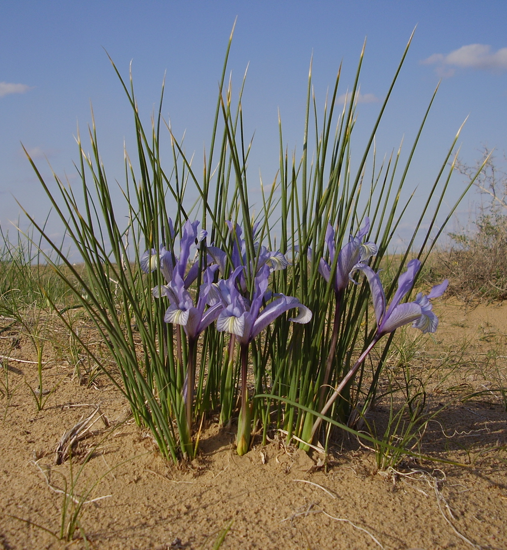 Slender-leaf iris (Iris tenuifolia). Baikonur-town (the left bank of Syr-Darya), Kazakhstan.